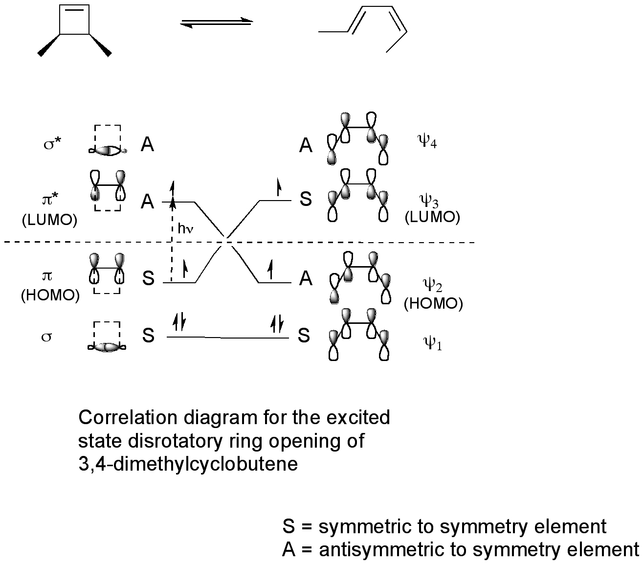 Excited state ring opening of 3,4-dimethylcyclobutene